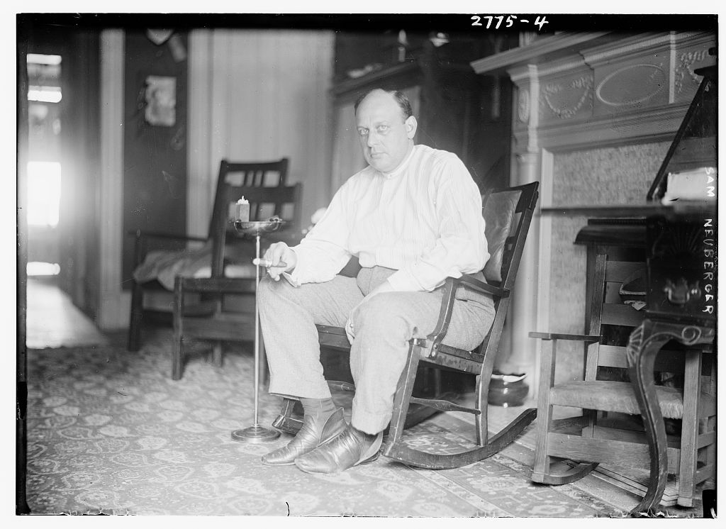 Bain News Service,, publisher. Samuel Neuberger [no date recorded on caption card] 1 negative : glass ; 5 x 7 in. or smaller. Notes: Title from unverified data provided by the Bain News Service on the negatives or caption cards. Forms part of: George Grantham Bain Collection (Library of Congress). Format: Glass negatives. Repository: Library of Congress, Prints and Photographs Division, Washington, D.C. 20540 USA, General information about the Bain Collection is available at Persistent URL: Call Number: LC-B2- 2775-4